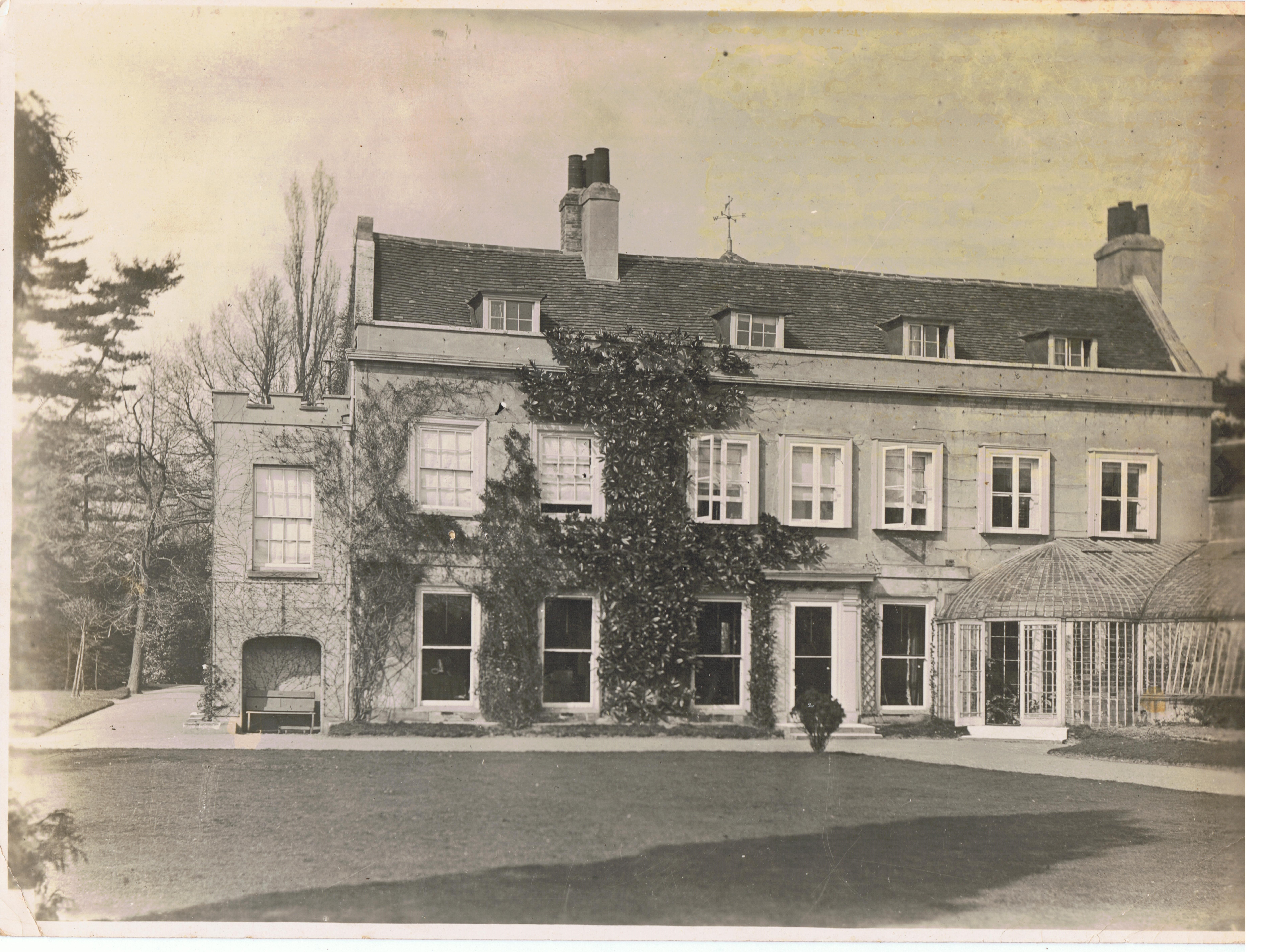 Scan of photo (by me, Rodolph (talk) 23:29, 26 August 2014 (UTC)) of Dawley Court, Goulds Green, Hillingdon, Uxbridge, Middlesex, c1890.